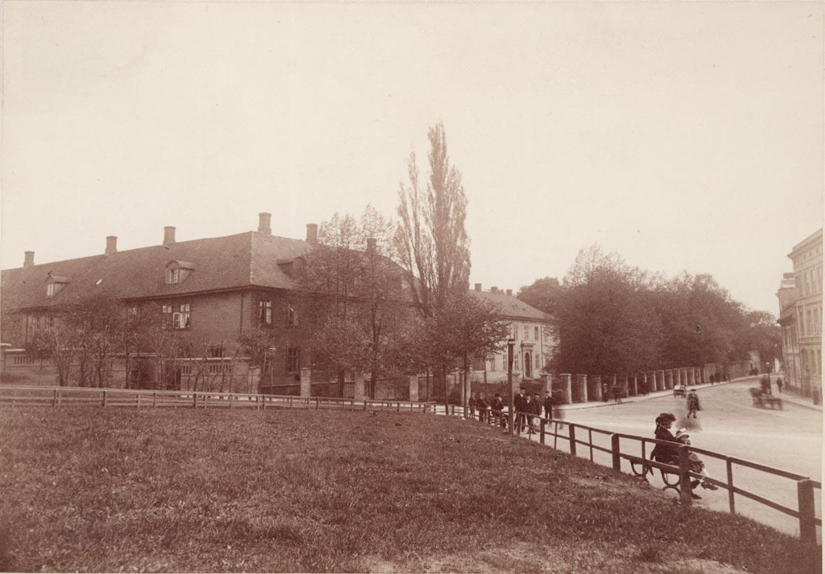 Empirekvartalet, Norway's first National Hospital, seen from Akersgata 1883. Photo Olaf Martin Peder Væring.